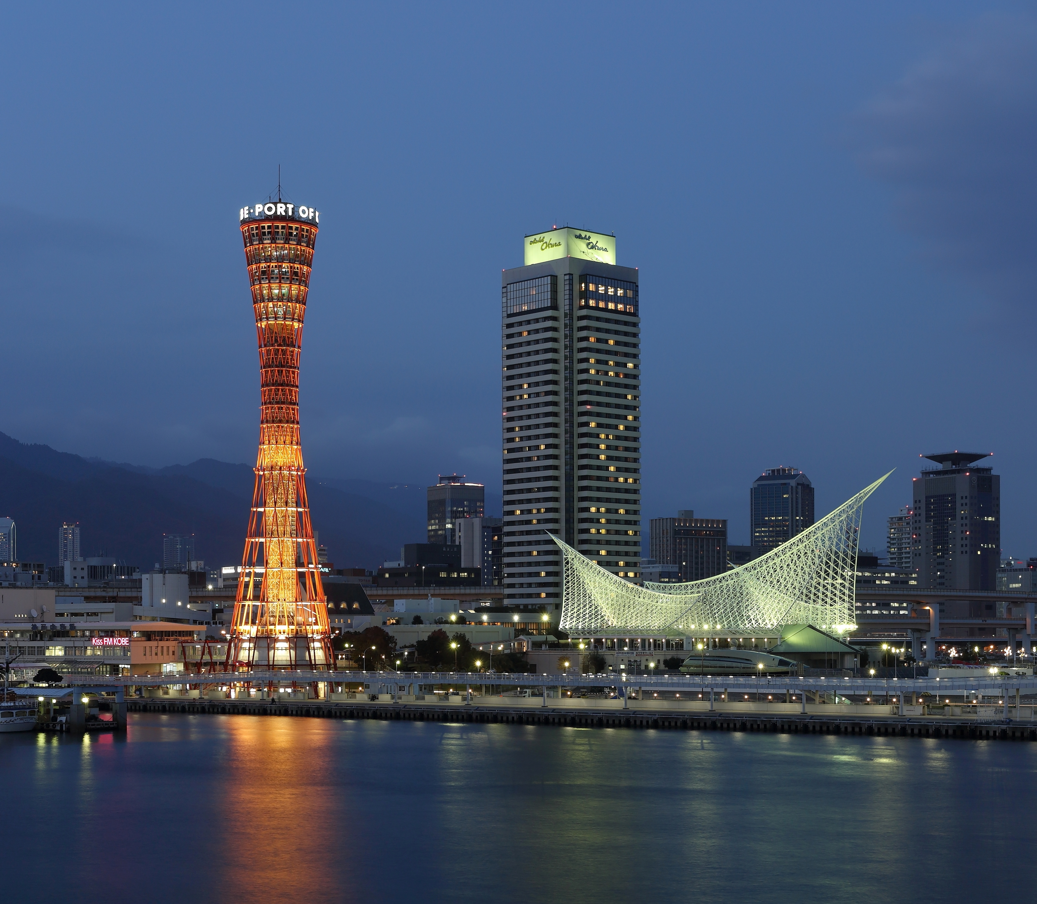 Kobe harbor: Kobe Port Tower and Kobe Maritime Museum.